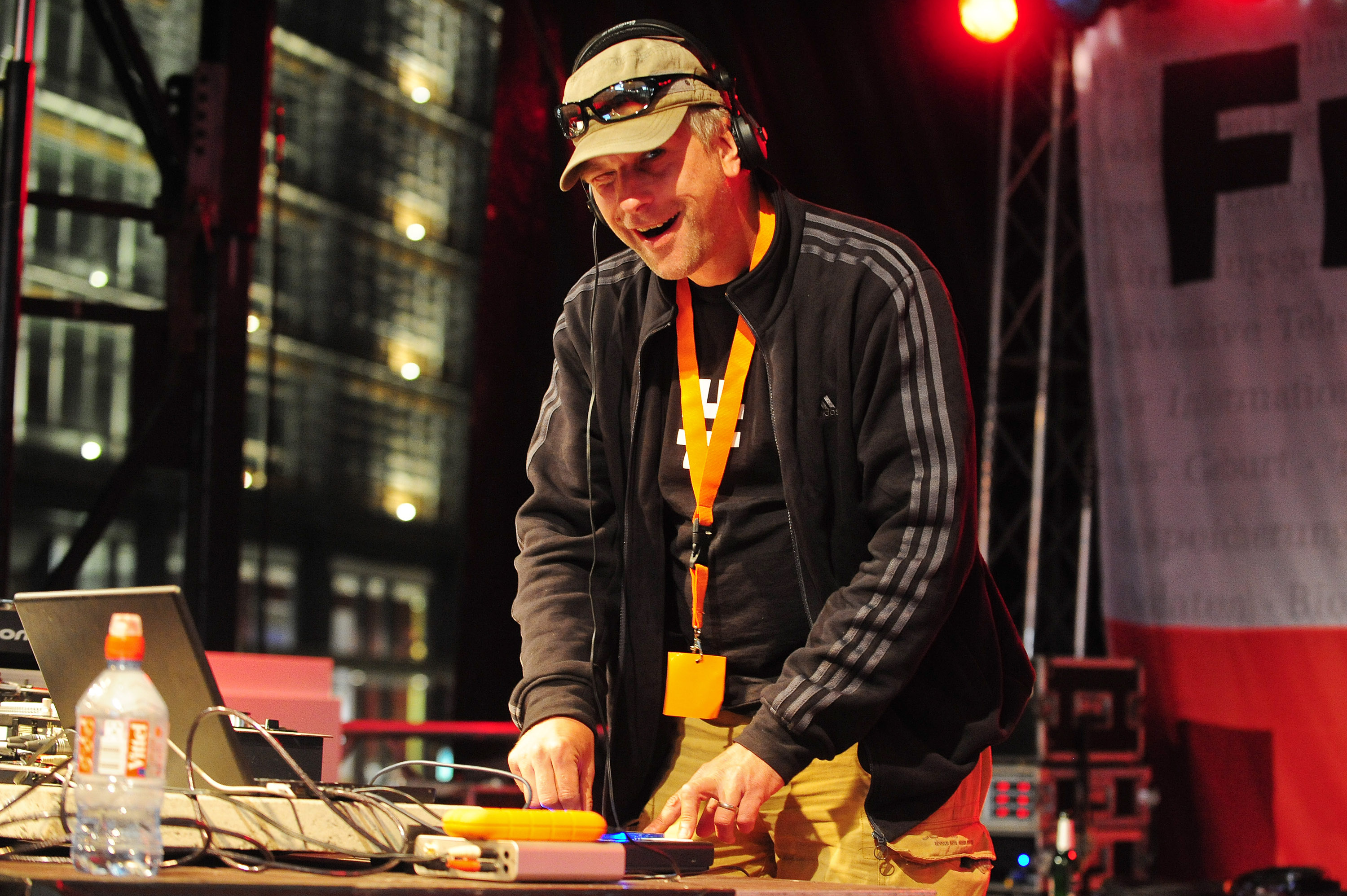 DJ Tanith auf der Demonstration "Freiheit statt Angst" 2009